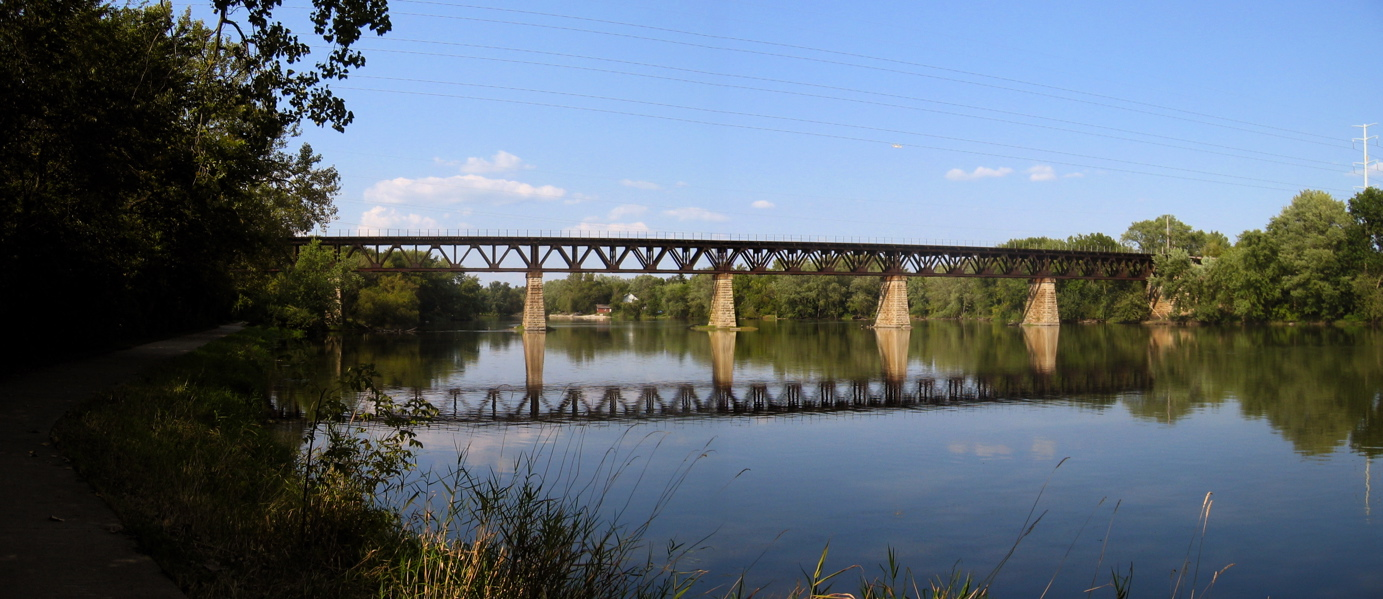 Bridge carrying the Chicago, Madison & Northern Railroad (later Illinois Central Railroad) across the Fox River ~1 mile south of South Elgin, Illinois (Fox River Trail)